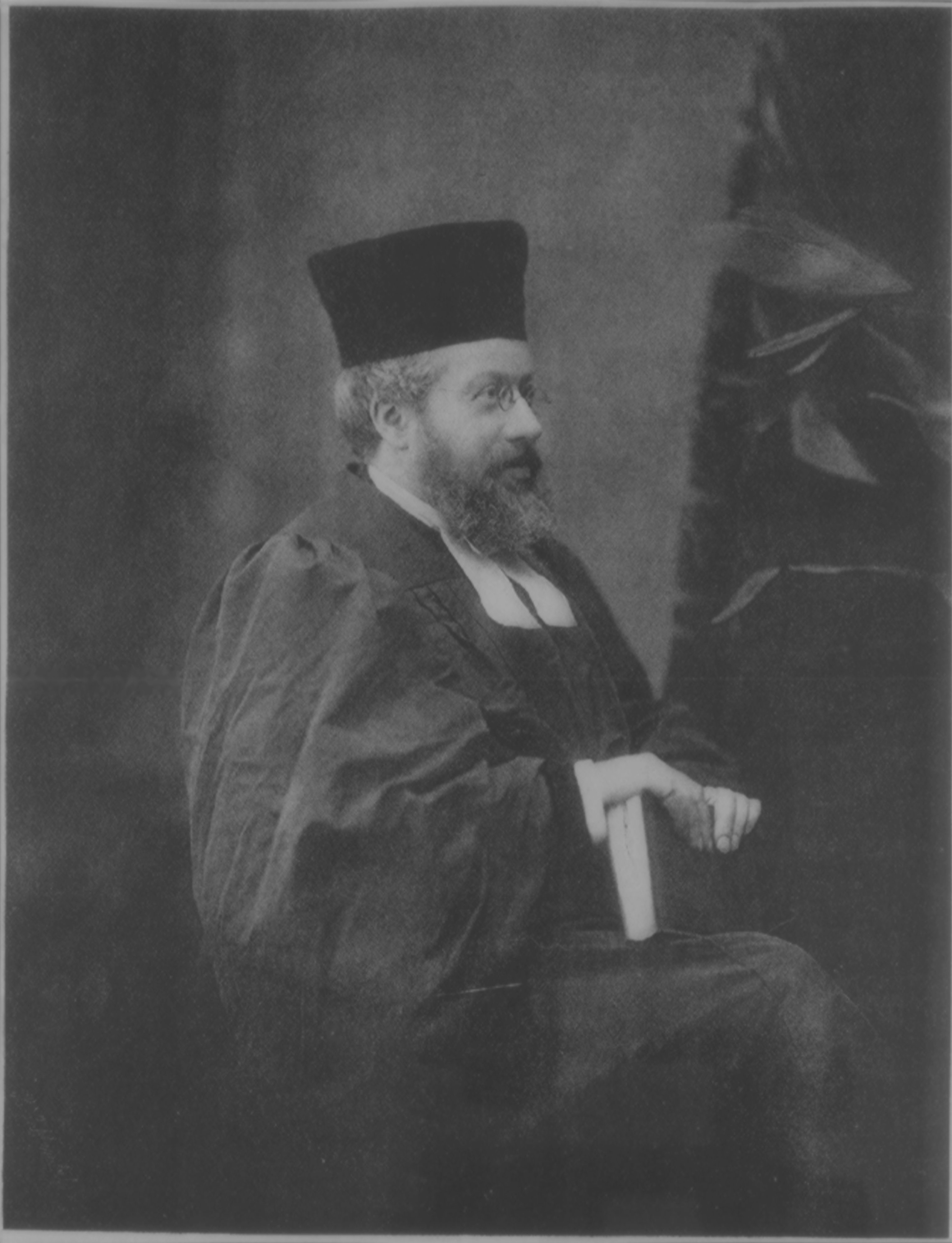 Rabbi Hermann Adler CVO (30 May 1839 – 18 July 1911) was the Chief Rabbi of the British Empire from 1891 to 1911.